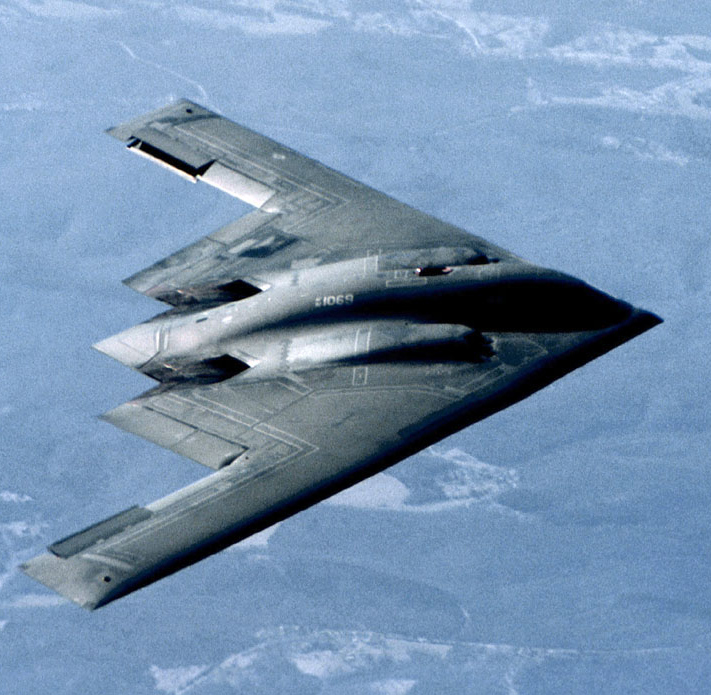 Northrop Grumman B-2 Spirit, serial number 82-1069, nicknamed Spirit of Indiana